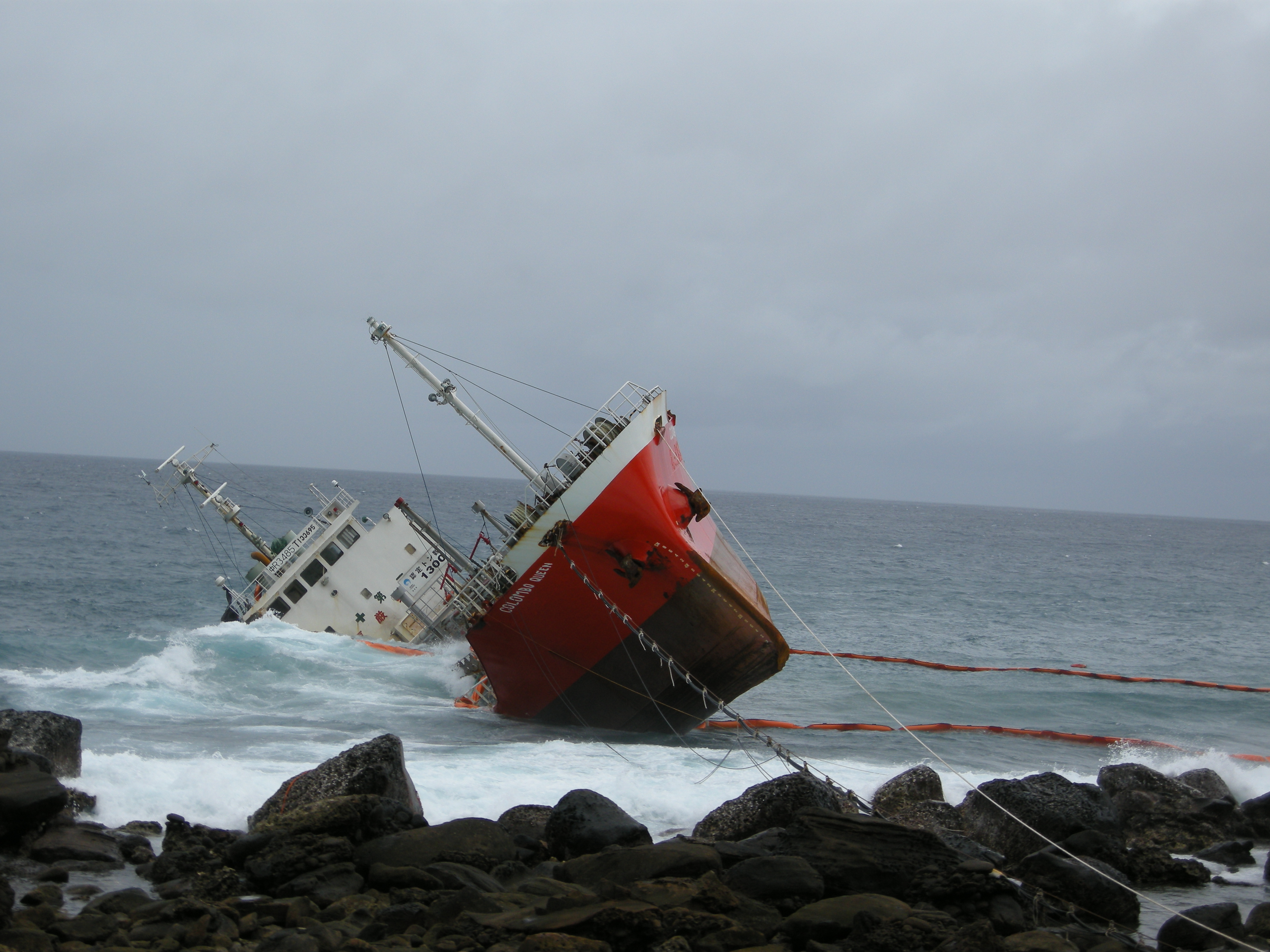 The Colombo Queen ran aground during Tropical Storm Linfa on June 21, 2009